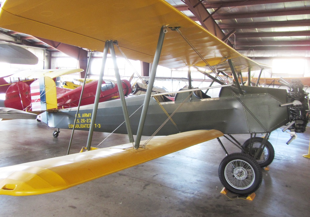 Consolidated PT-3